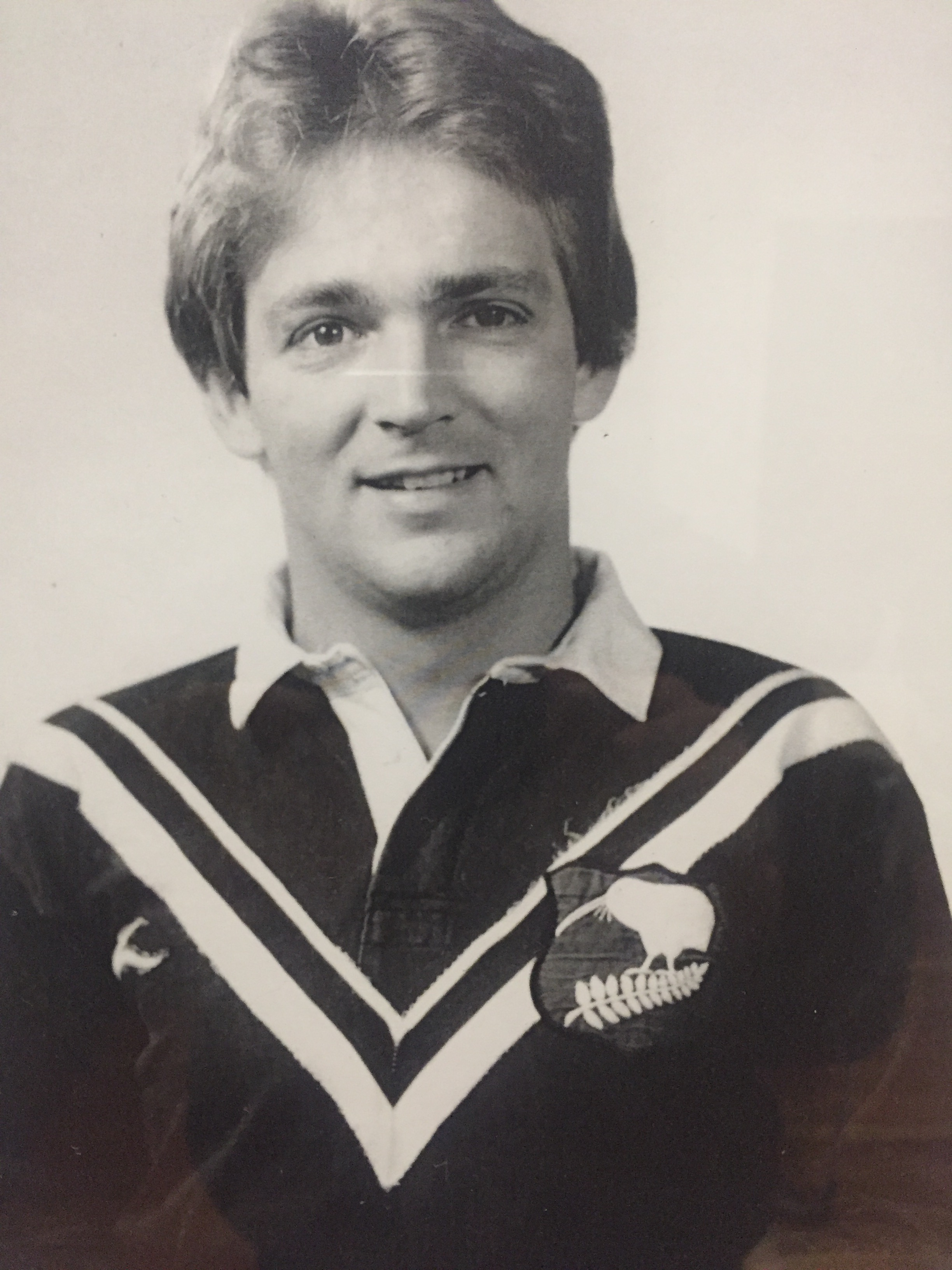 portrait 1972